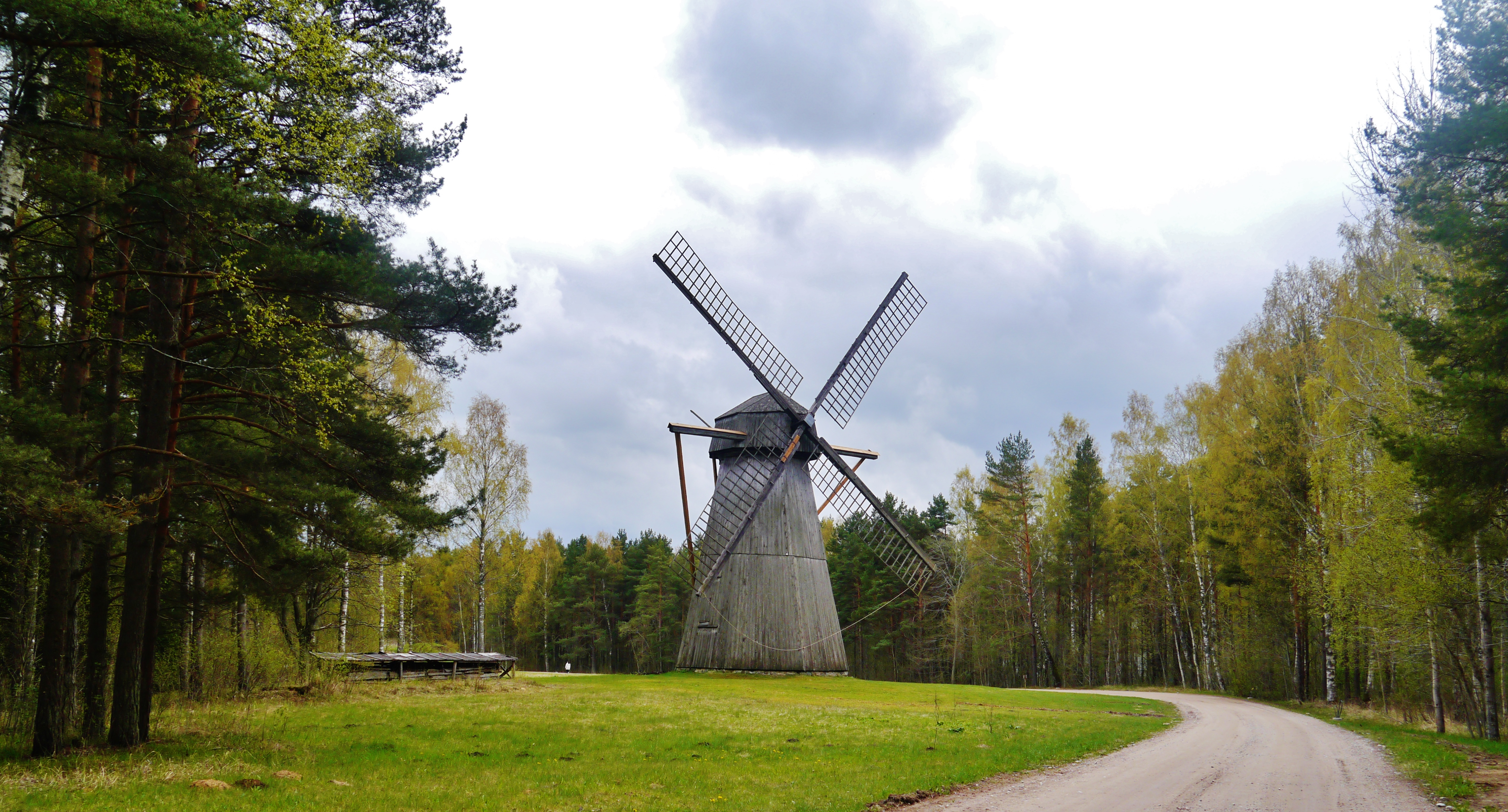 Great Windmill at the Estonian Open Air Museum Rocca al Mare, Tallin, Estonia